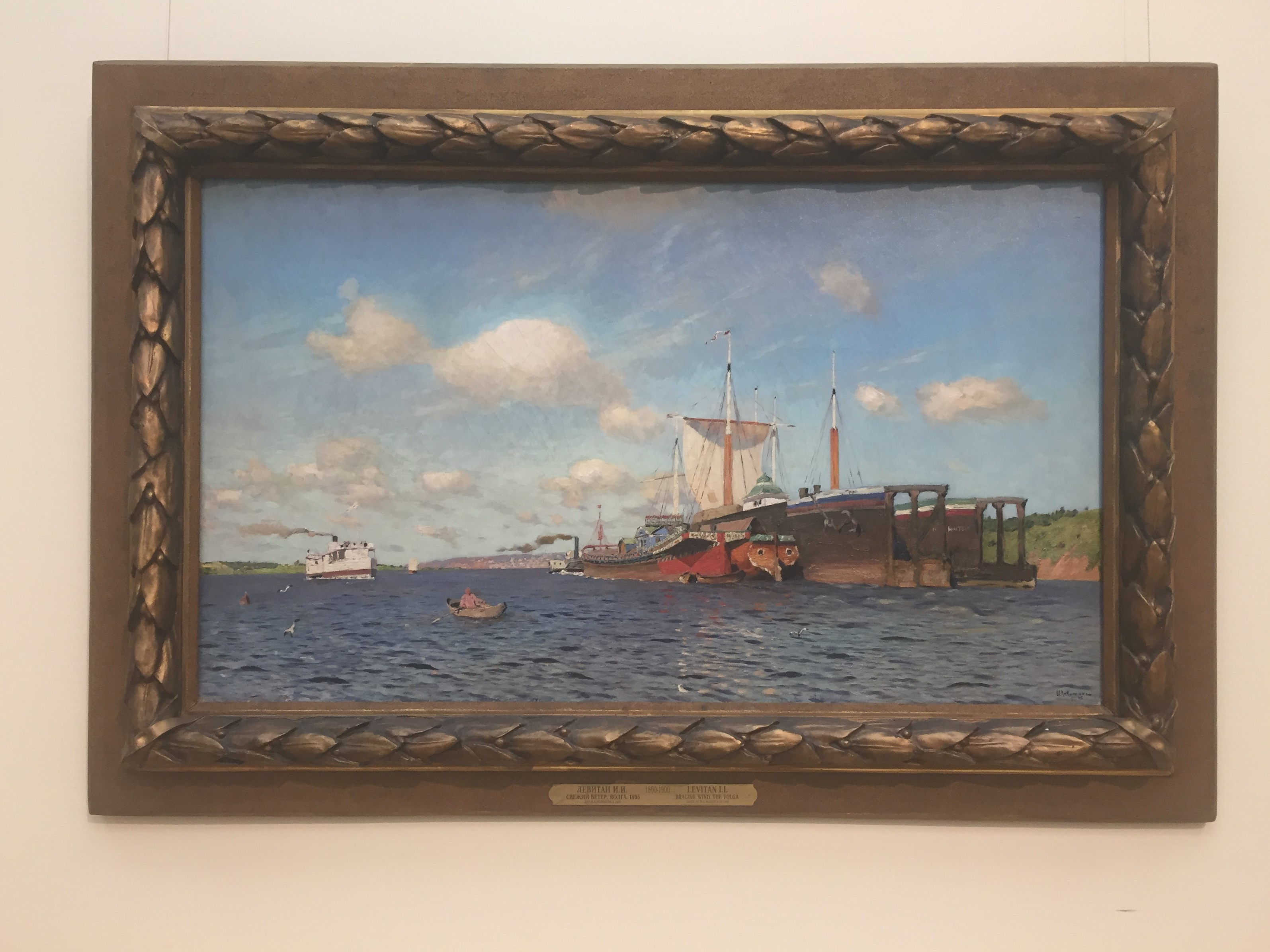 "A fresh breeze. On the Volga" (painting by Isaac Levitan, 1895) in the State Tretyakov Gallery